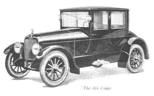 Ace Rotary Six Model G 5-passenger Coupe-Sedan,1921. This car was built by the Apex Motors Corp., located on South River Street, Ypsilanti, Mich. The car featured Guy disc valve 6 cylinder engine with gears driving the valves instead of a camshaft.